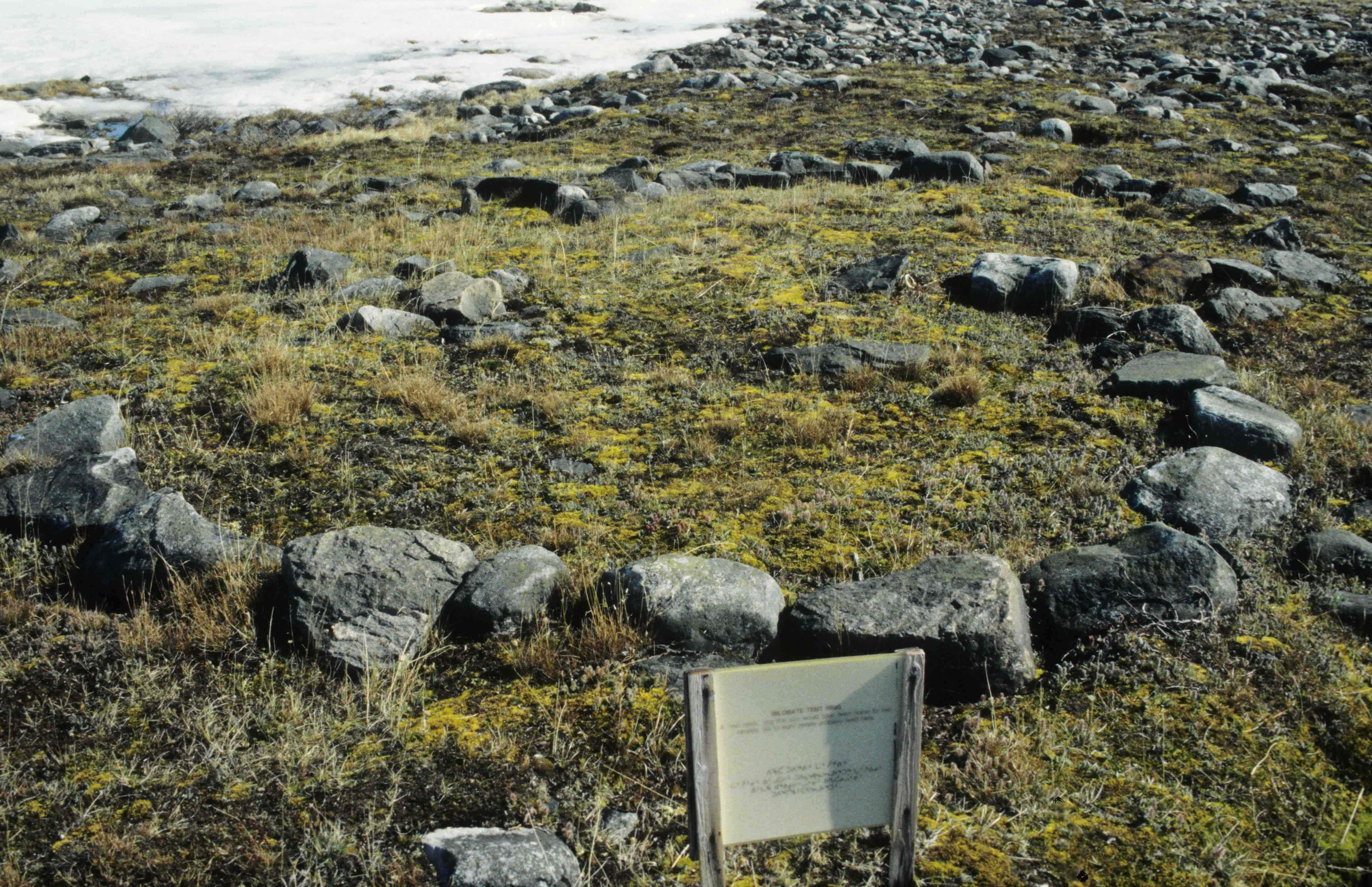 Thule Site at Meliadine River near Rankin Inlet, Nunavut, Canada: Tent ring